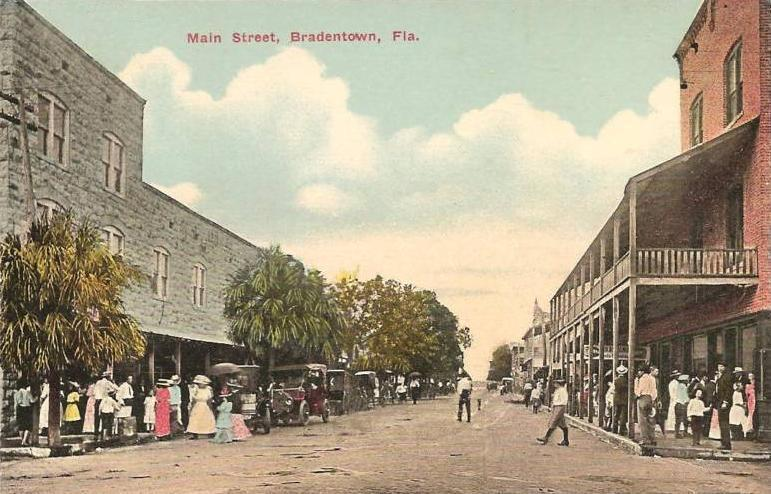 Main Street, Bradentown, Florida. It is now Old Main Street in Bradenton, Florida.